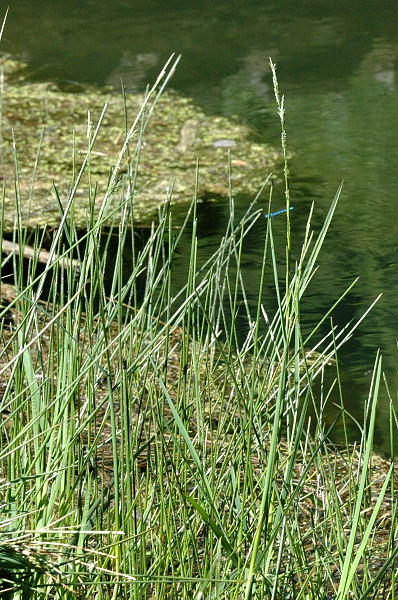 Picture taken in Commanster, Belgian High Ardennes . Species: Glyceria fluitans